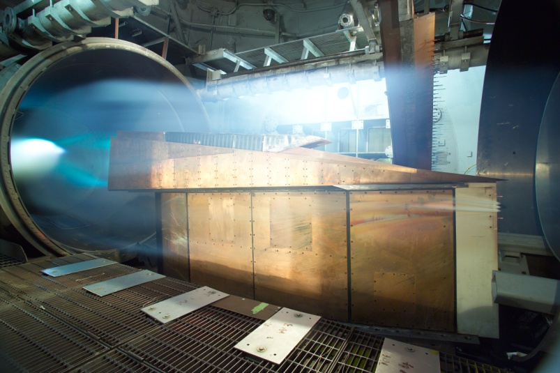 Test Pratt & Whitney Rocketdyne SJY61 scramjet engine at its transition to JP7